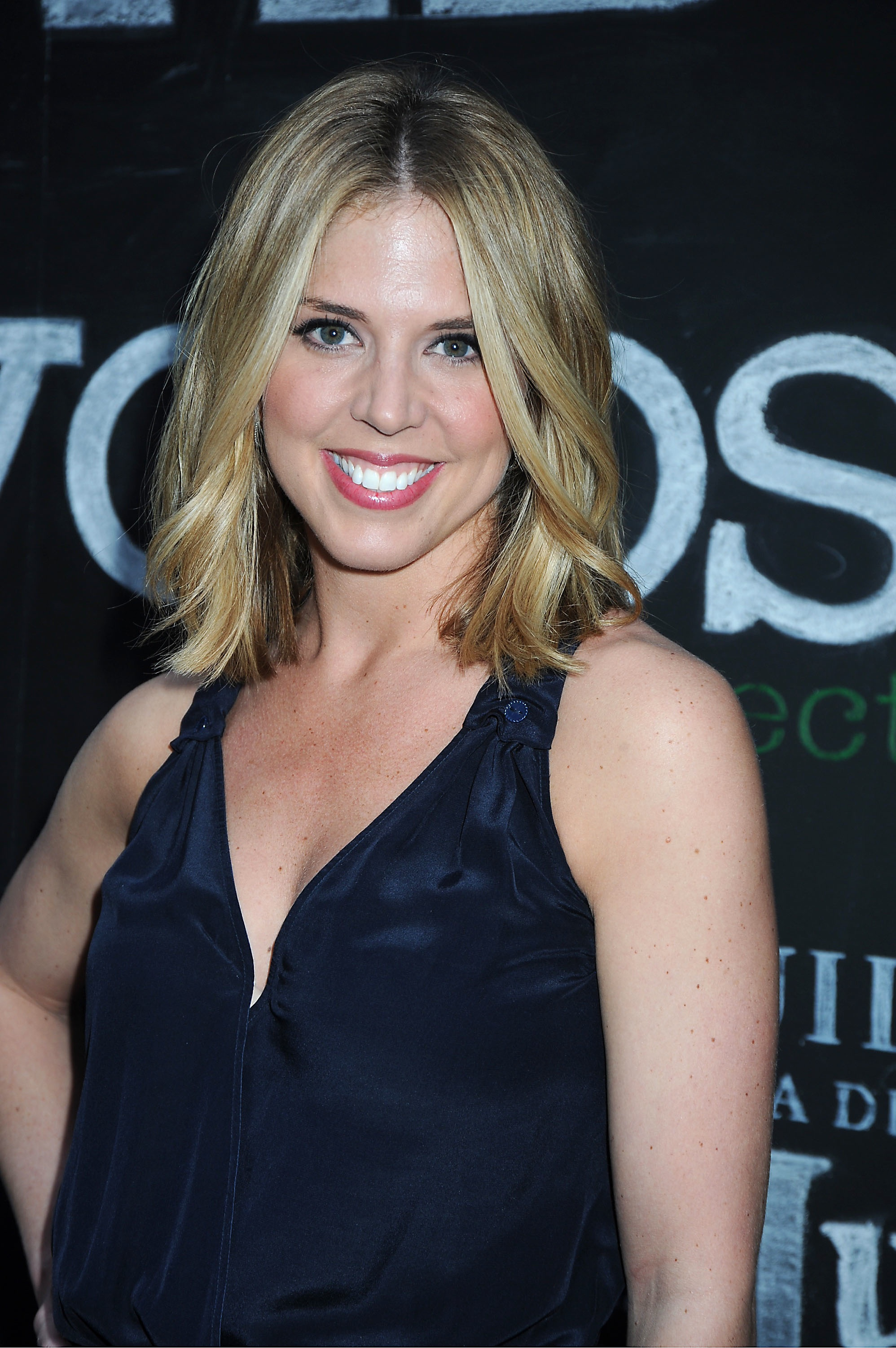 Joy Suprano at Olevolos Project Fundraiser Brunch hosted by HBO and Bryan Greenberg